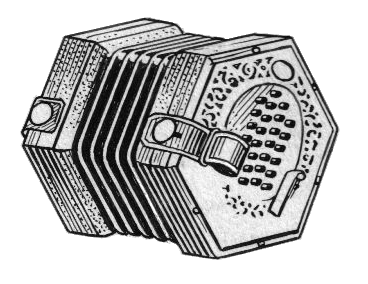 line art drawing of concertina.